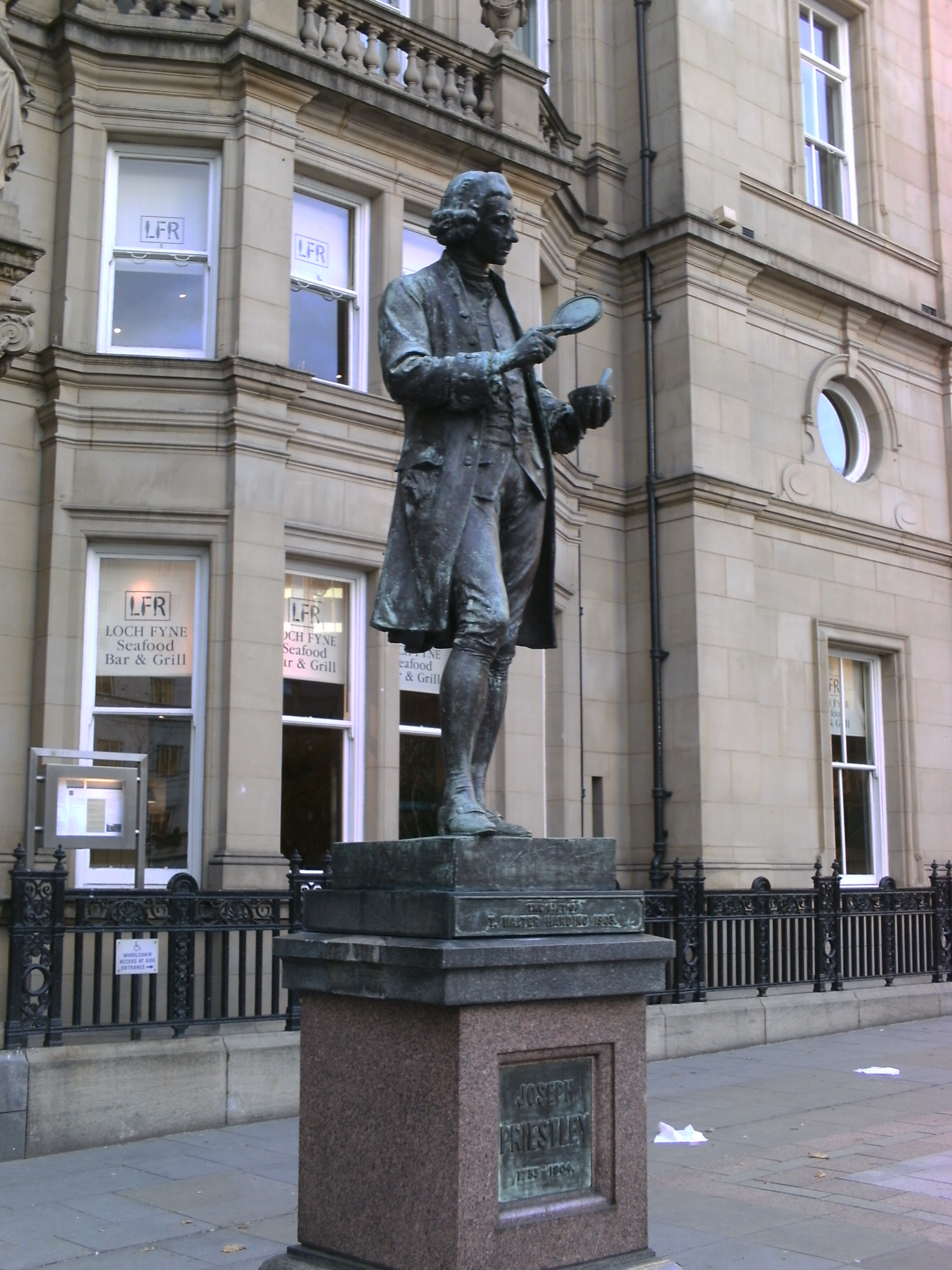 Statue of Joseph Priestley on Leeds City Square.